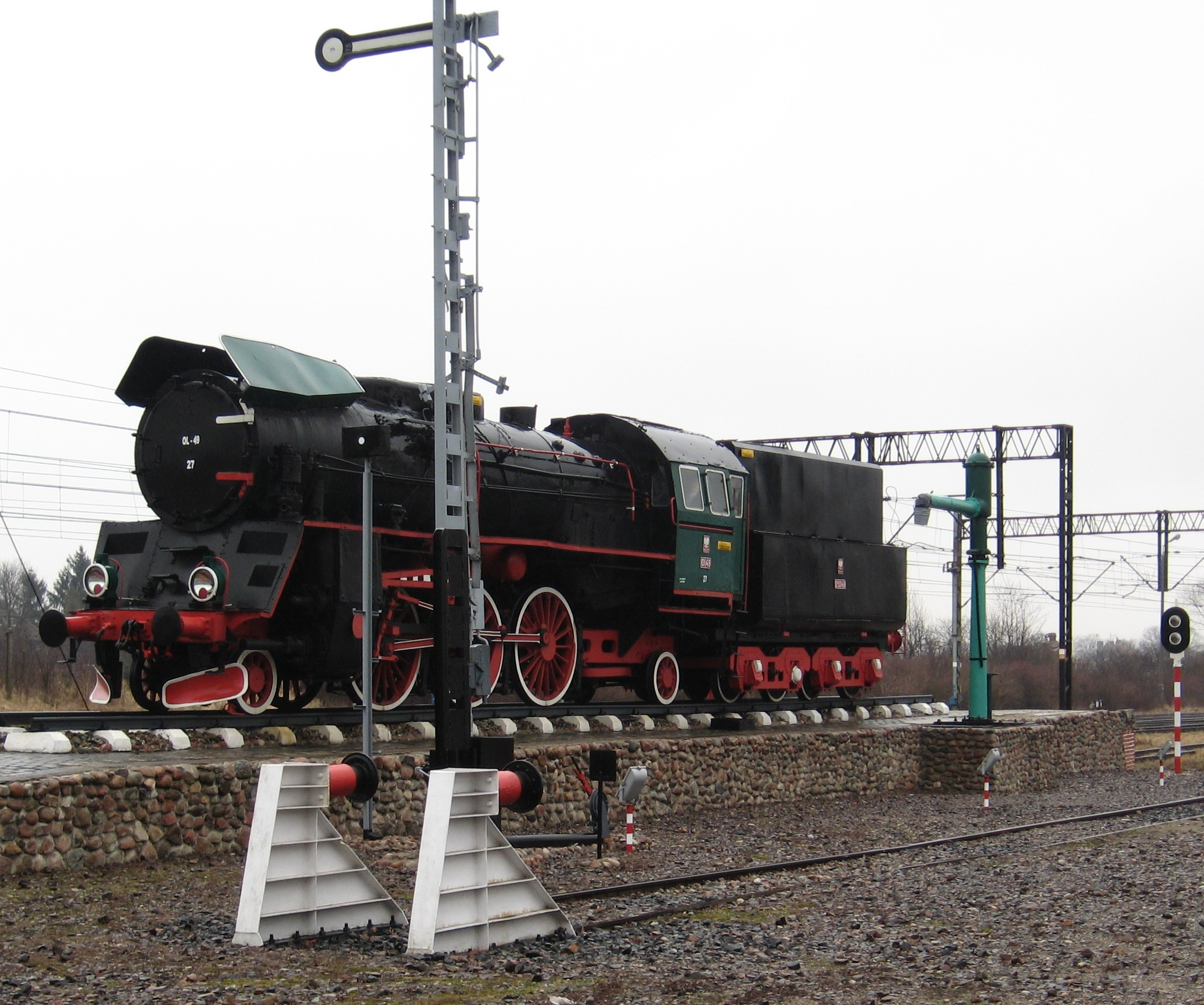 steam locomotive Ol49 at the train station of Korsze, Poland.